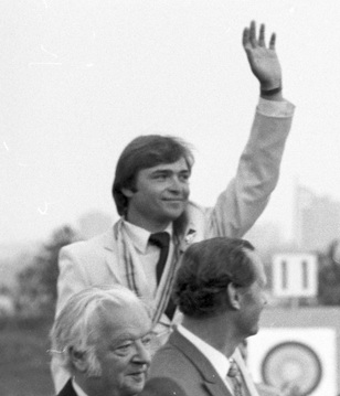 “Boris Isachenko (USSR) on the victory podium”. Boris Isachenko (USSR) on the victory podium. Dinamo archery range in Mytishi. Archery competition. XXII Summer Olympic Games held in Moscow on July 19 - August 3, 1980.